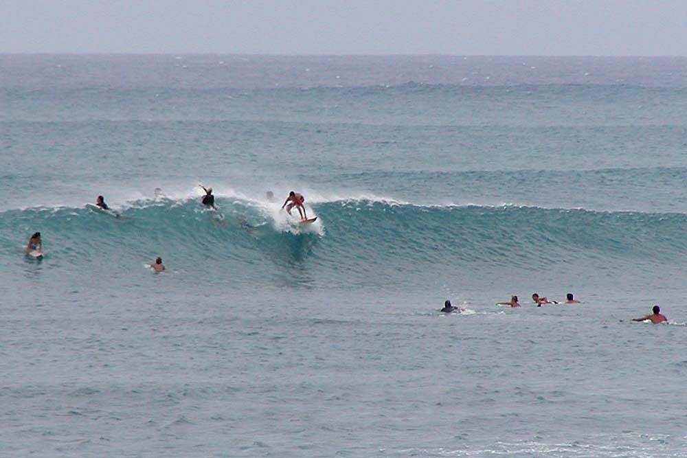 Oahu North Shore surfers catching a wave